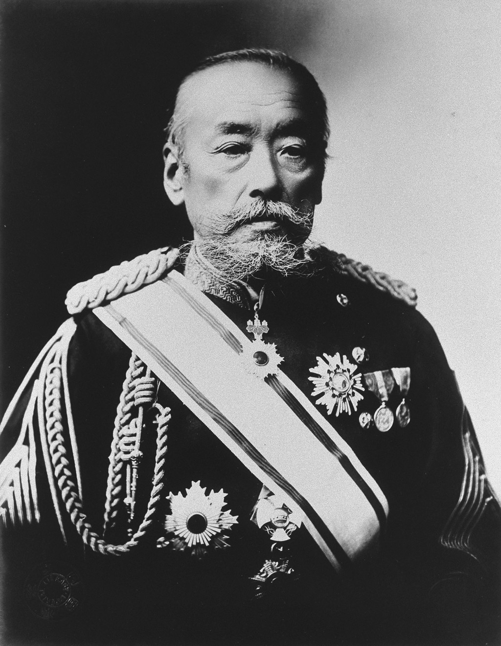 Portrait of Murata Tsuneyoshi (村田経芳, 1838 – 1921)